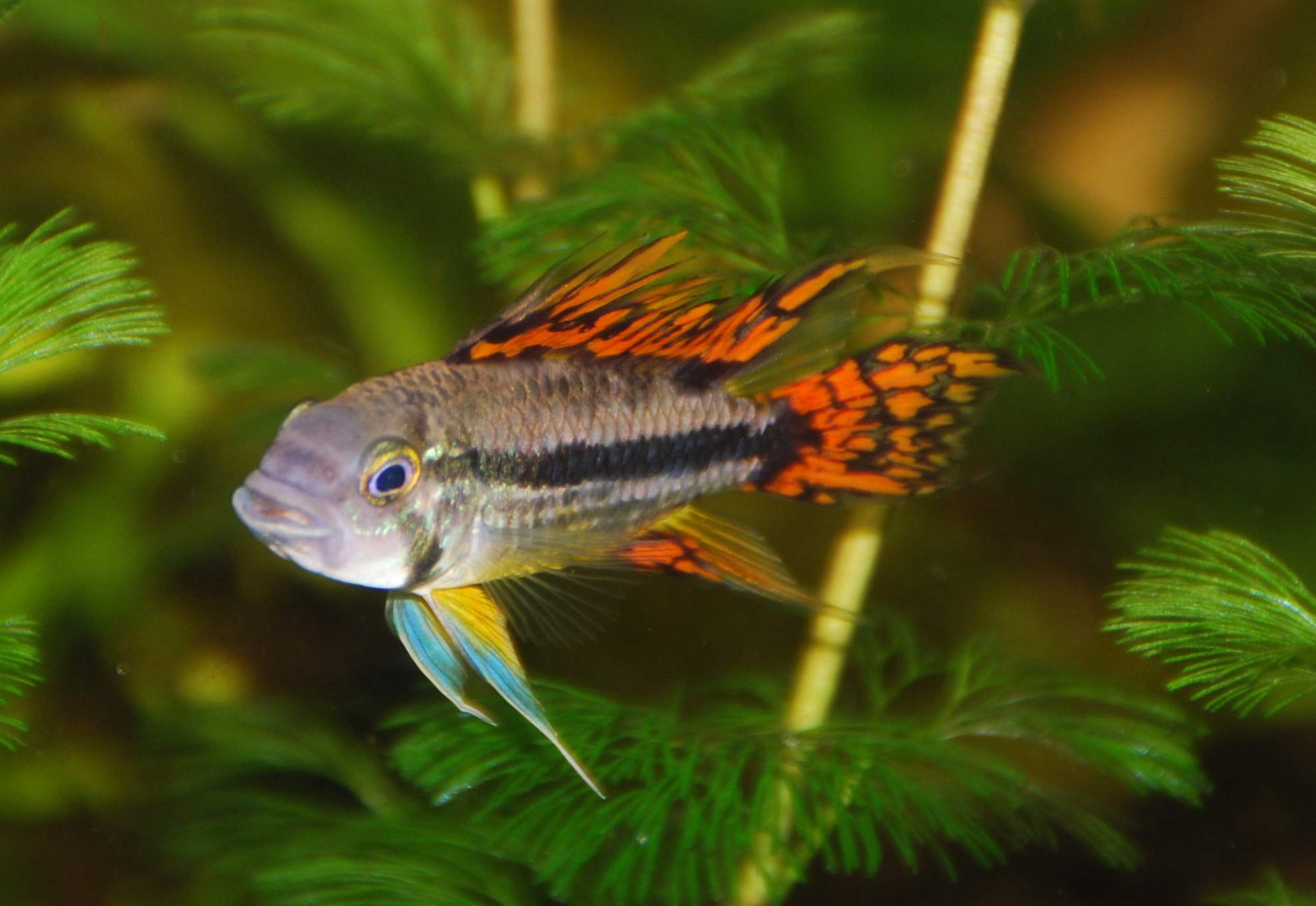 Male Apistogramma cacatuoides double red